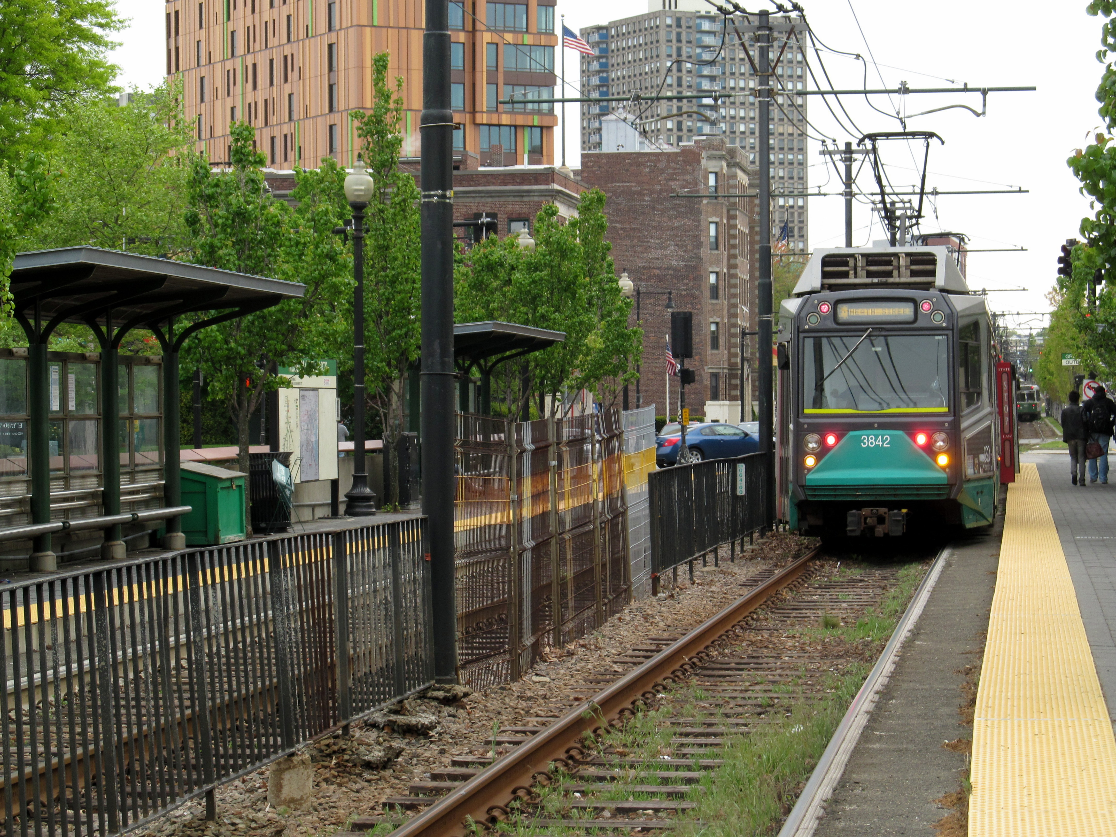 An outbound Type 8 tram at Museum of Fine Arts station in Boston